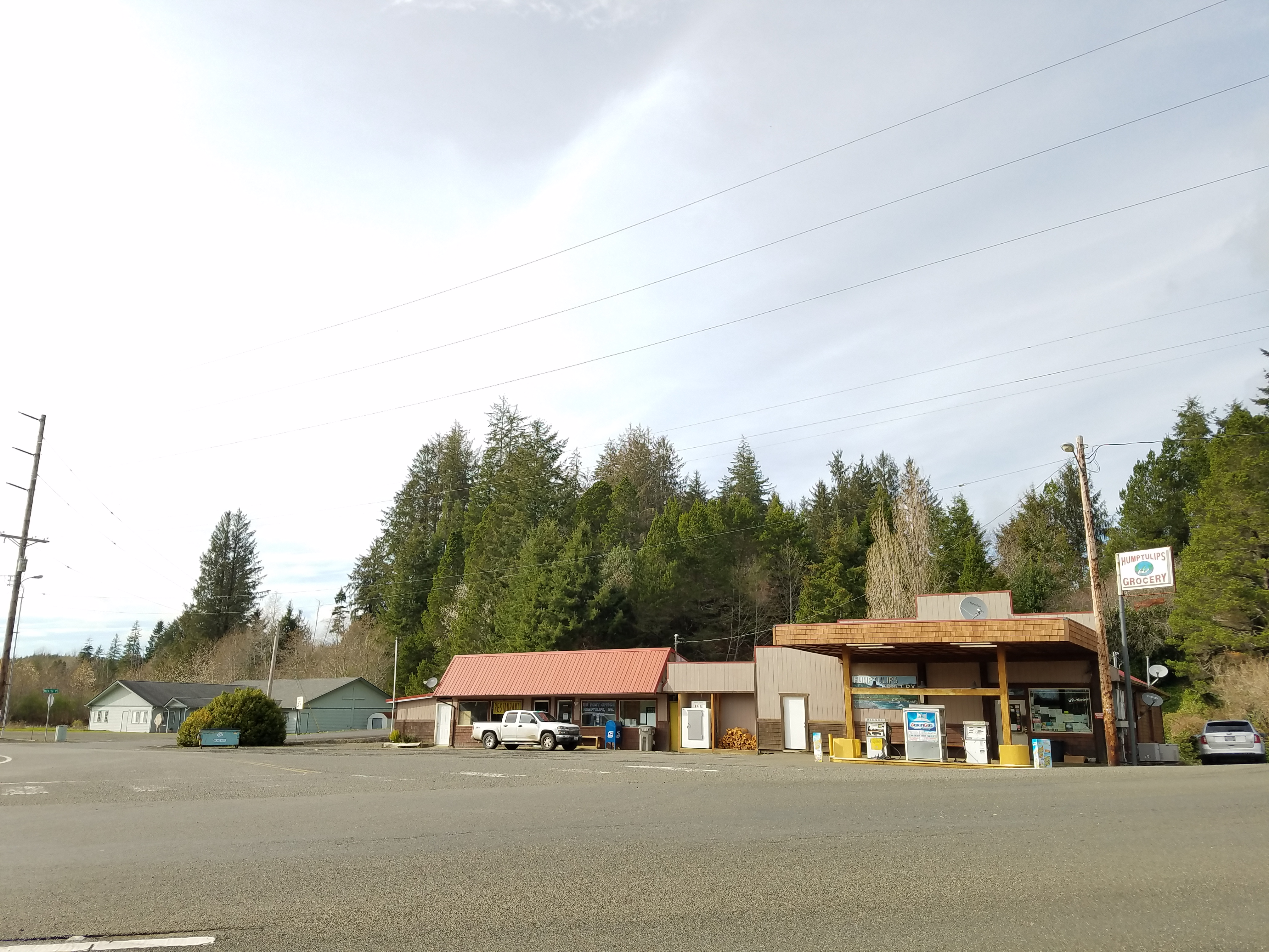 The main stretch through the small oddly-named town of Humptulips, Washington, USA, featuring the grocery store, post office, and a small church.